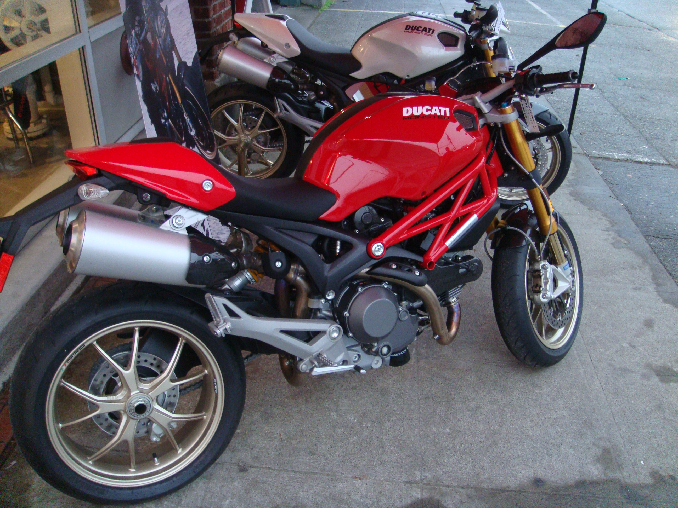 Ducati Monster 1100S